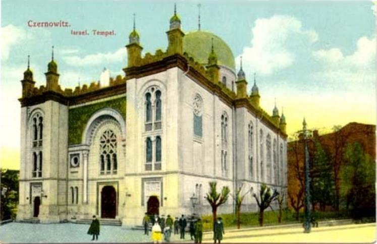 The Temple, southwest view. Coloured postcard